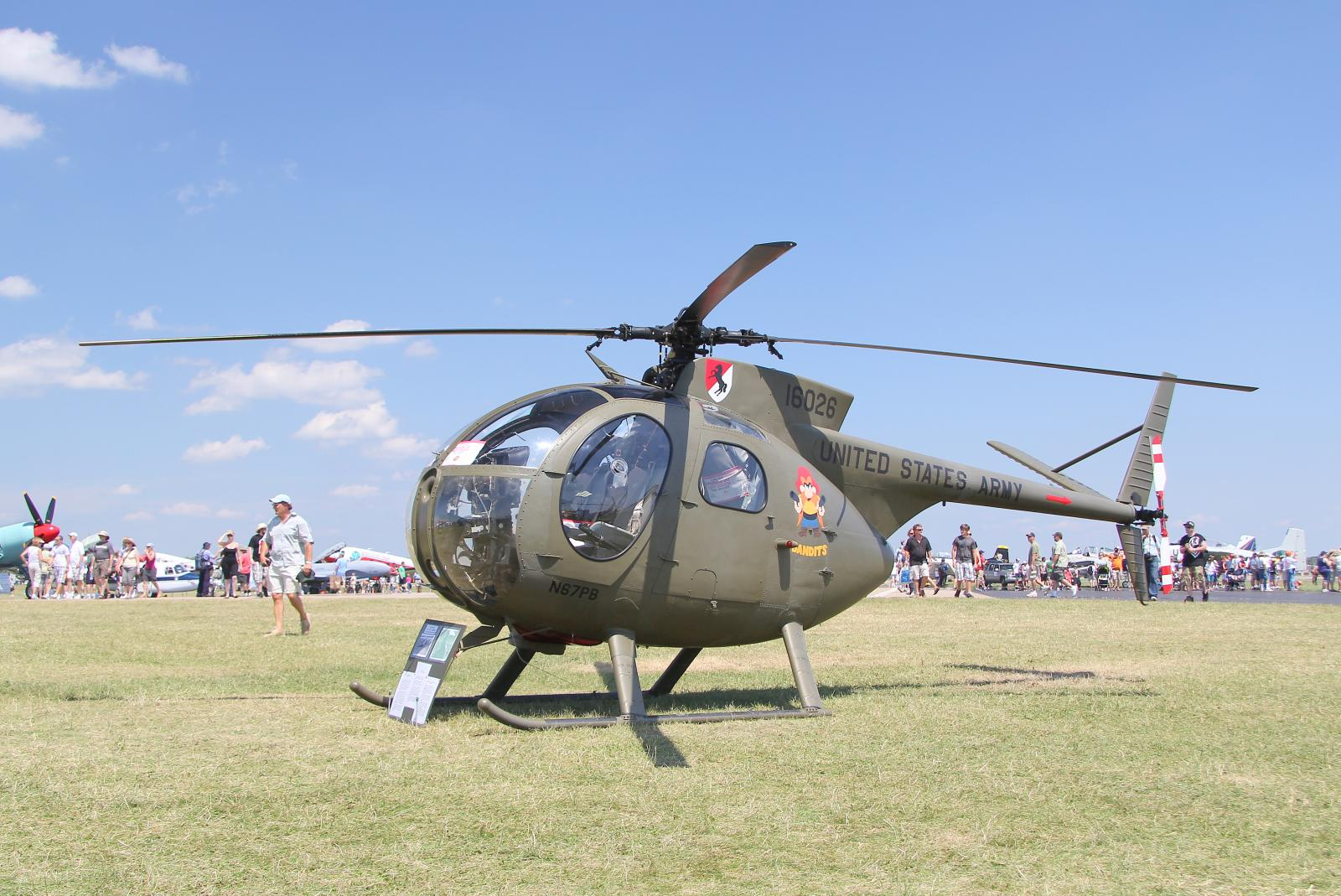 N67PB / 16026 (cn 48-0411) Manufactured in 1968